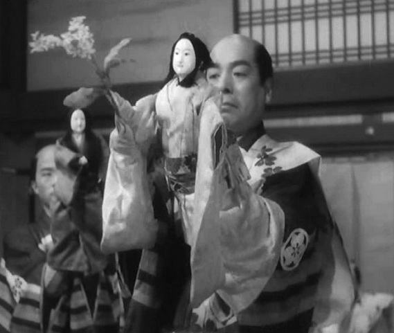 Screenshot from The Life of Oharu, 1952 film.